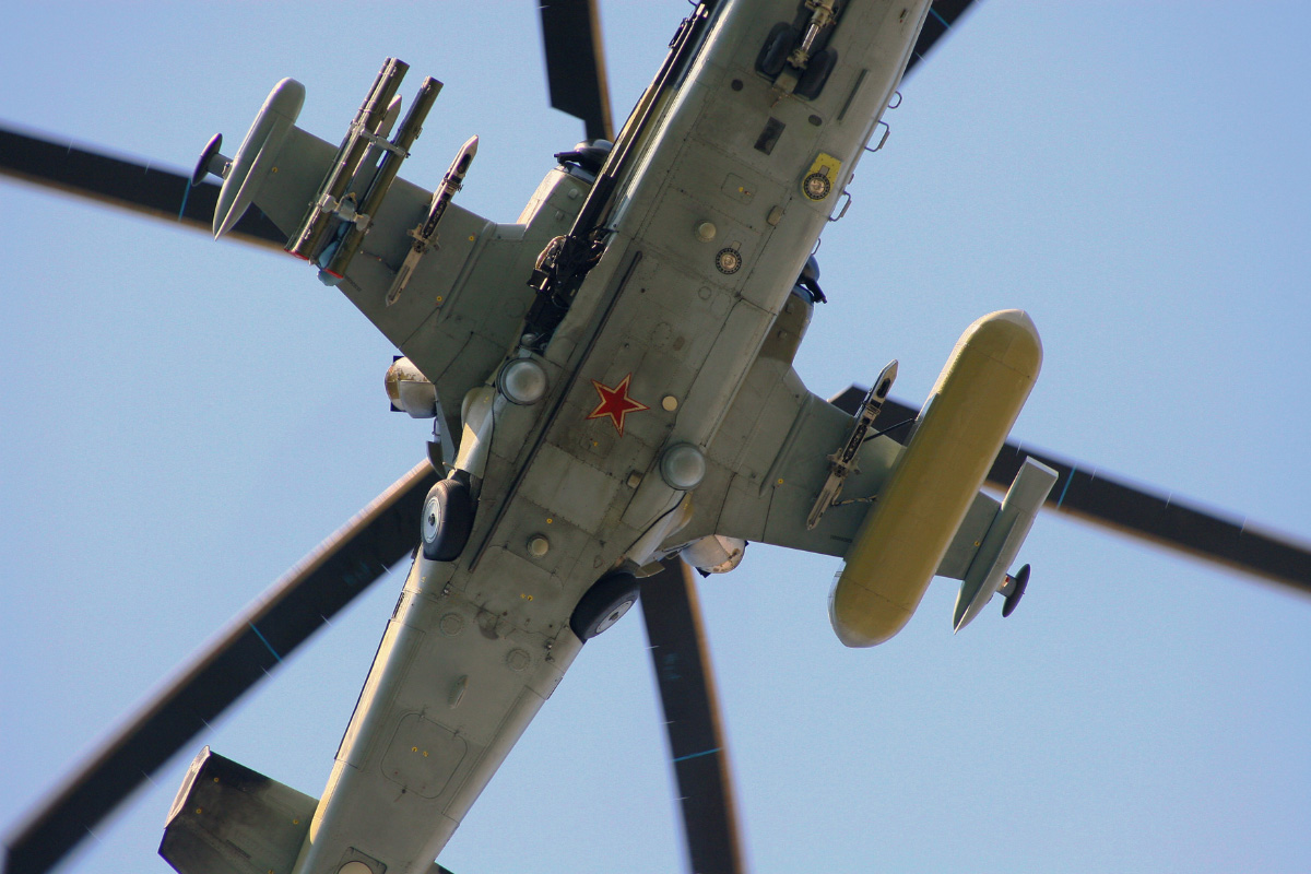 Kamov Ka-52 over Moscow on Victory Day Parade